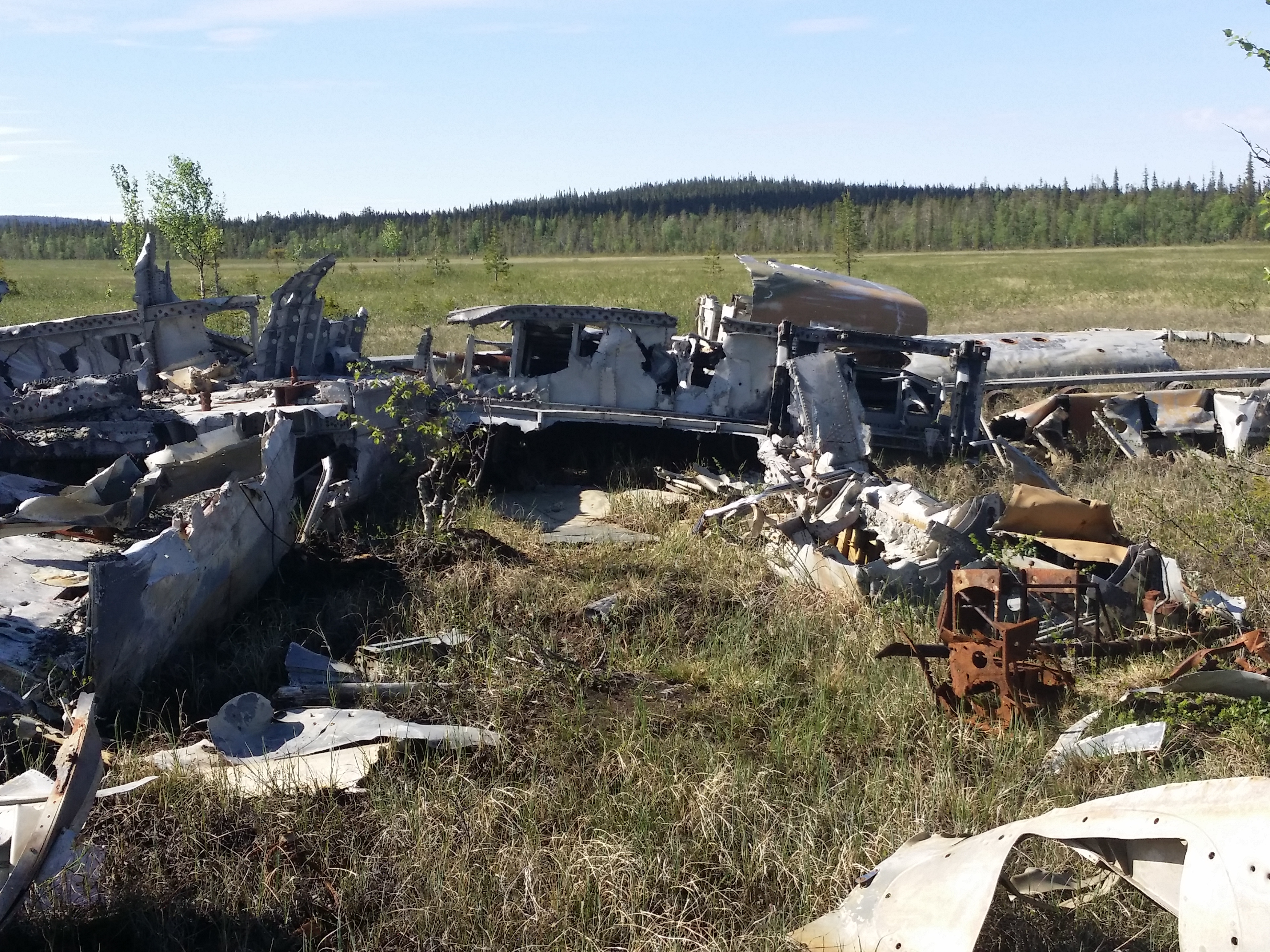 Lancaster Bomber "Easy Elsie" outside of Porjus.